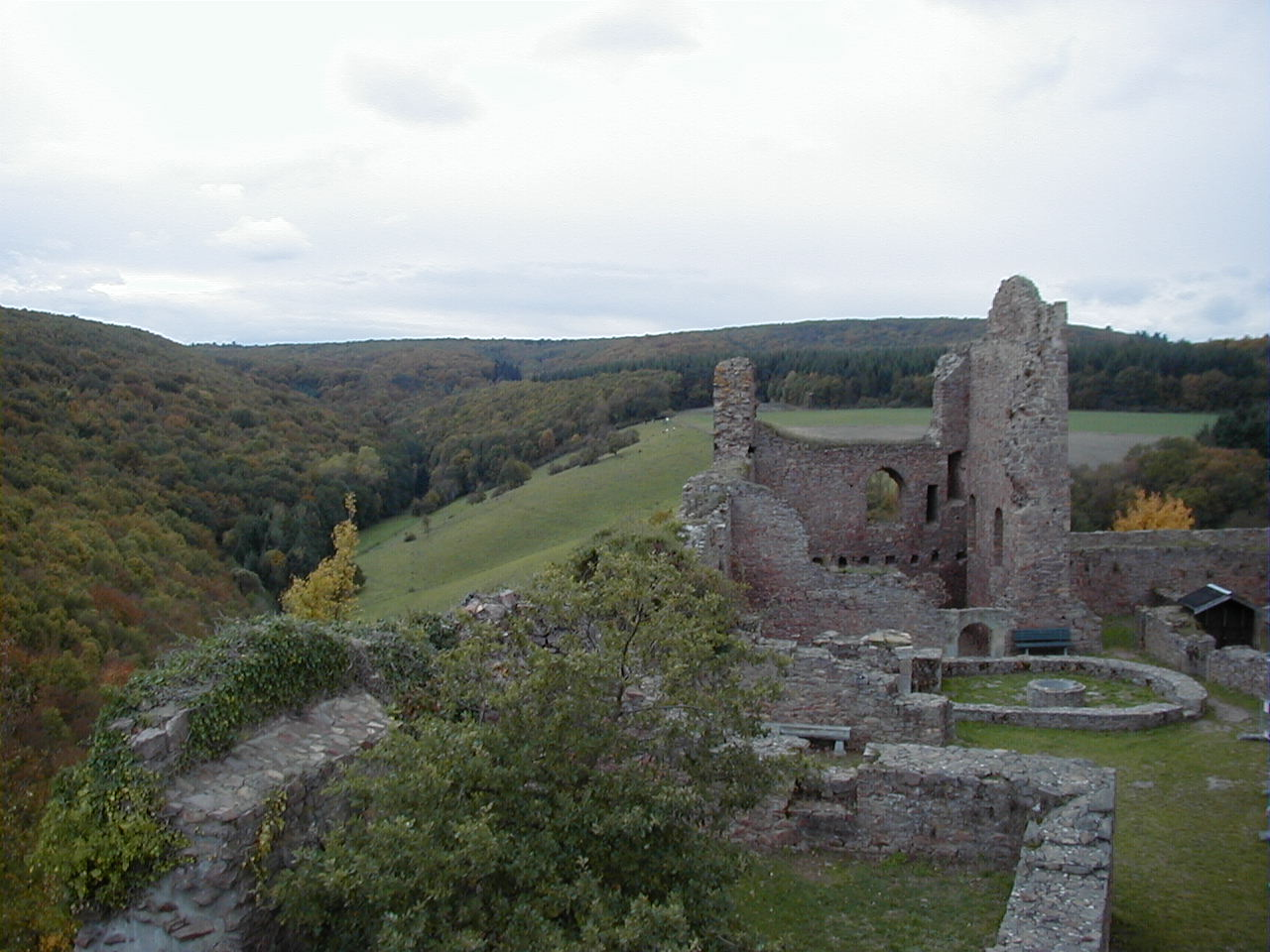 The ruin of the Montfort castle in Rhinland-Palatine is located between Hallgarten and Oberhausen a.d. Nahe. Destroyed 1456